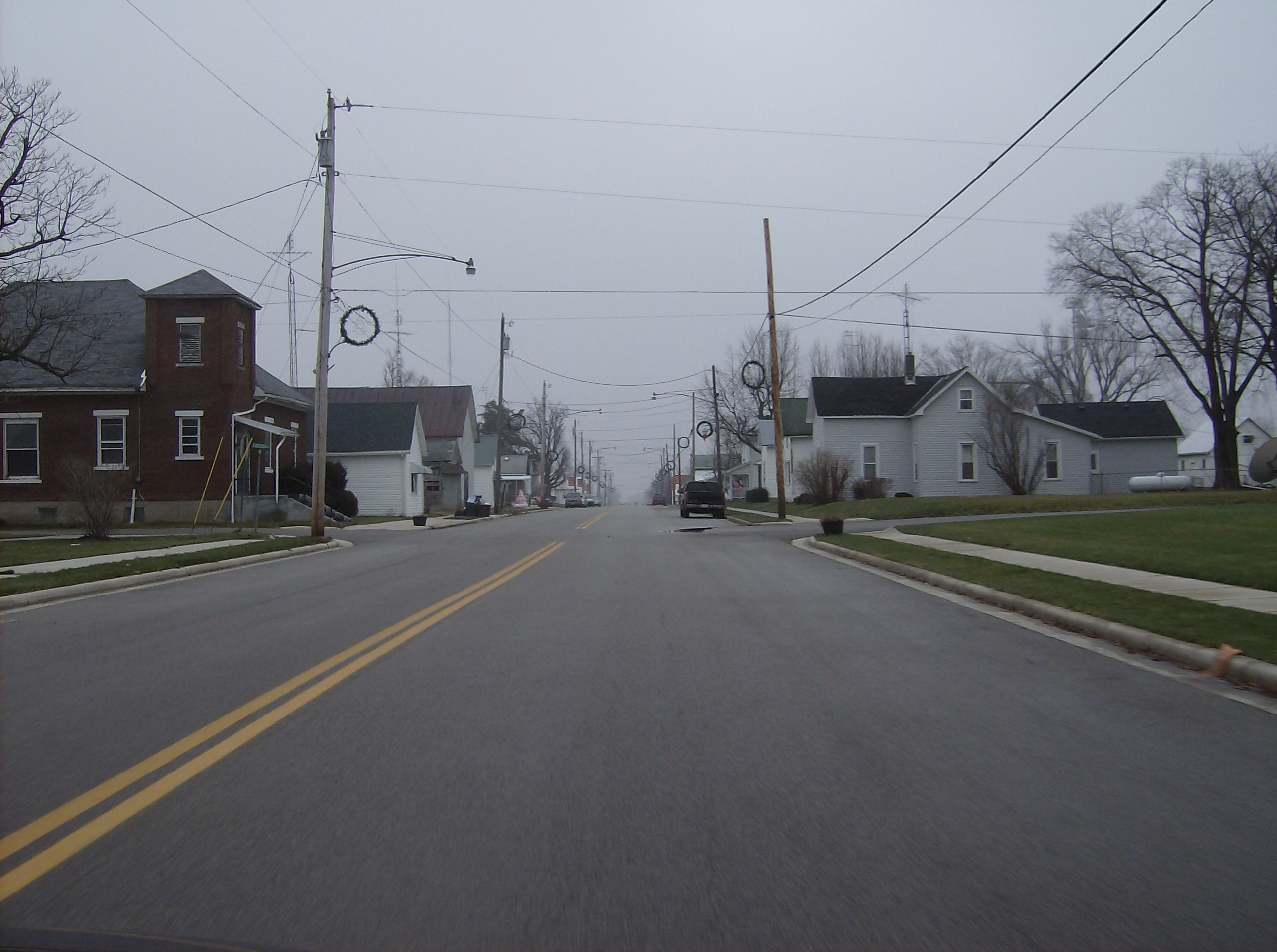 Along Main Street (State Route 705) in western New Weston, a village in northern Darke County, Ohio, United States.